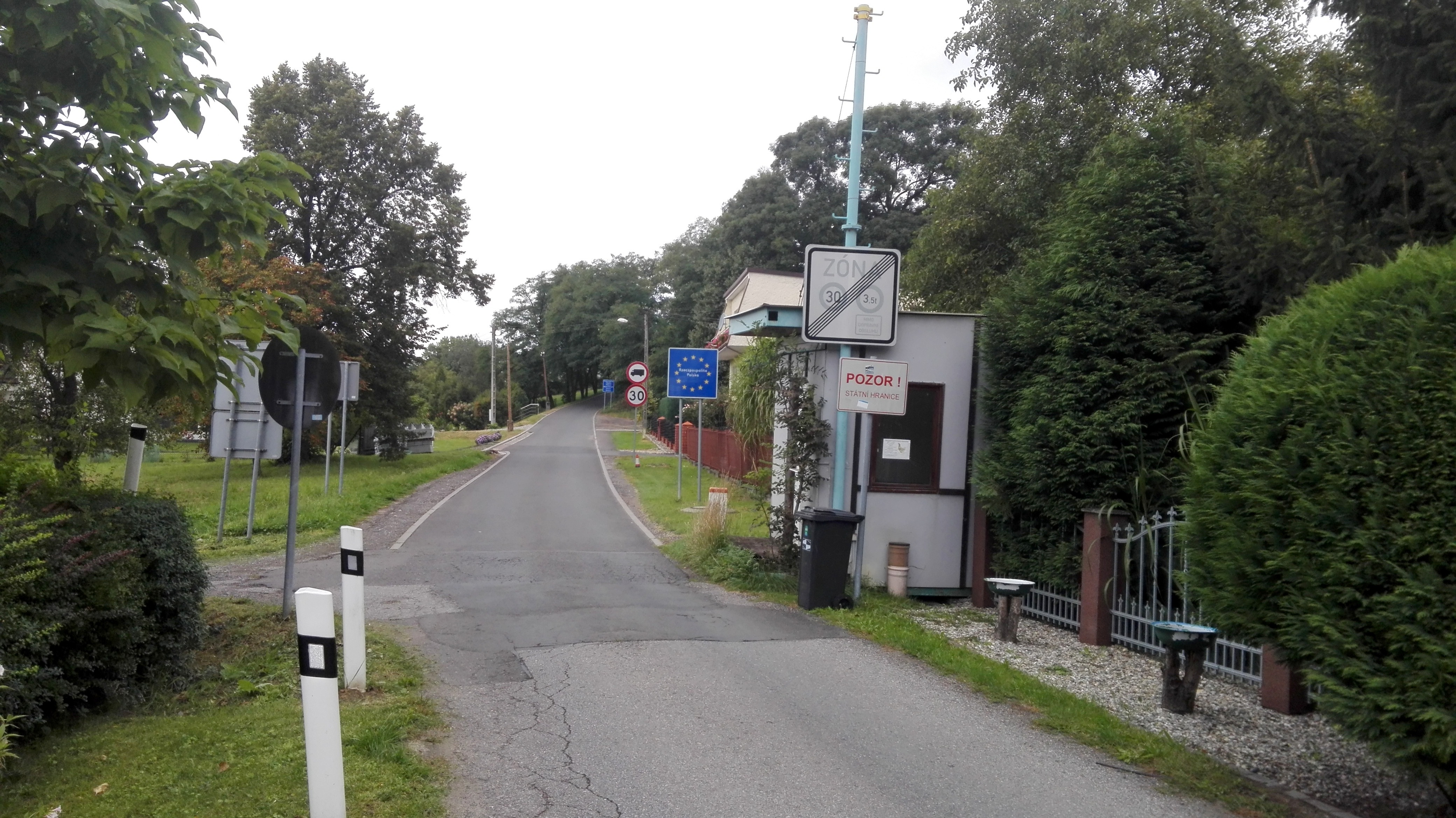 Skrbeńsko-Petrovice u Karviné border crossing